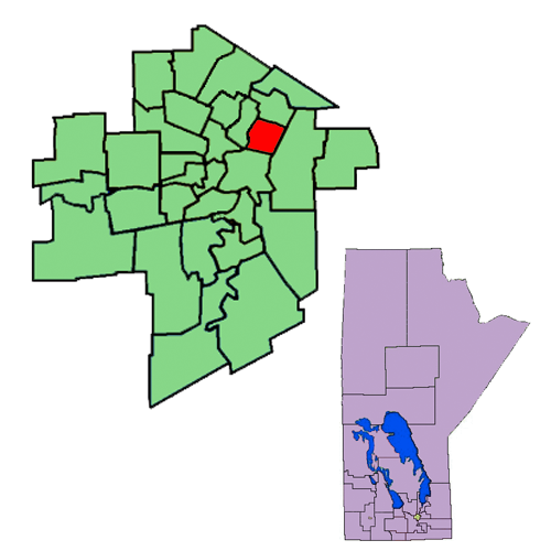 The 1999-2011 boundaries for the Concordia electoral district highlighted in red